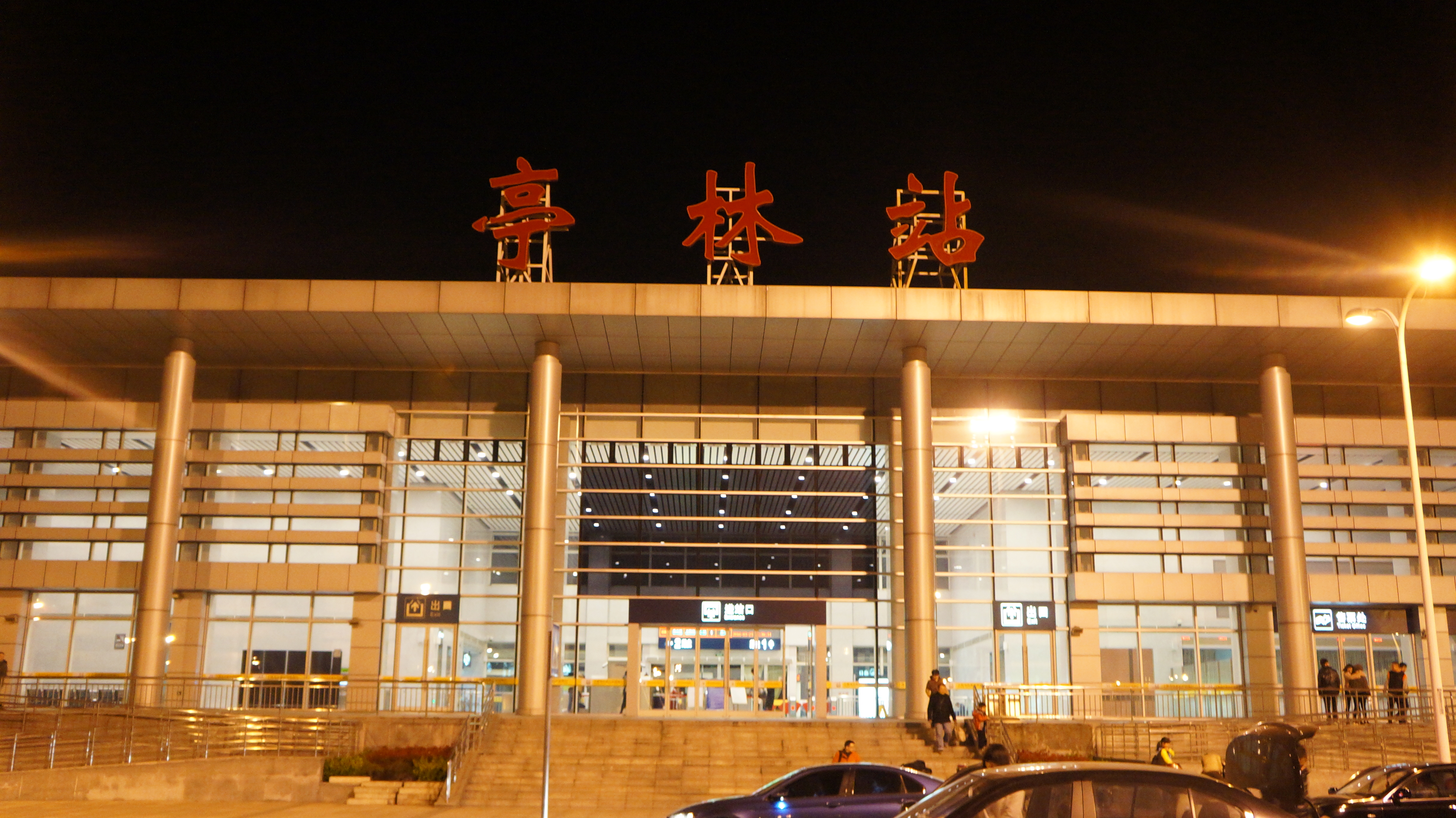 201603 Facade of Tinglin Station